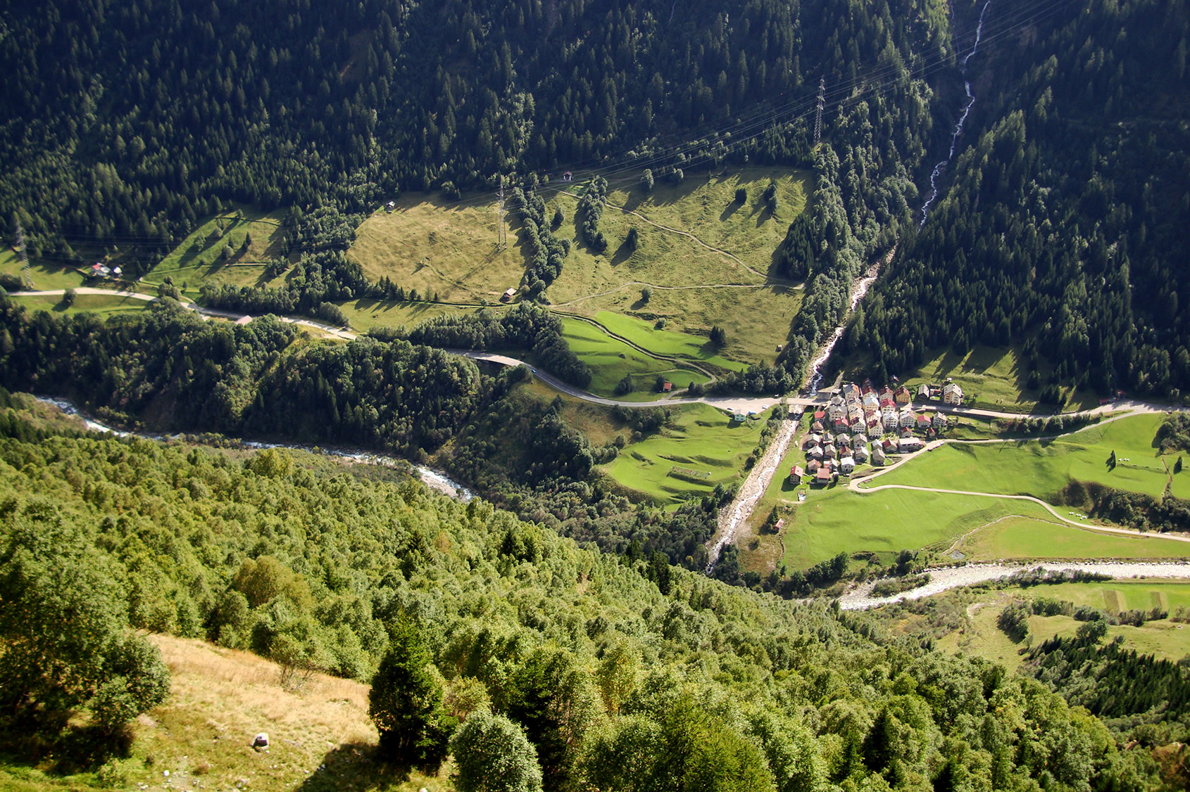 Airlonia village in the municipality of Airolo in Ticino, Switzerland